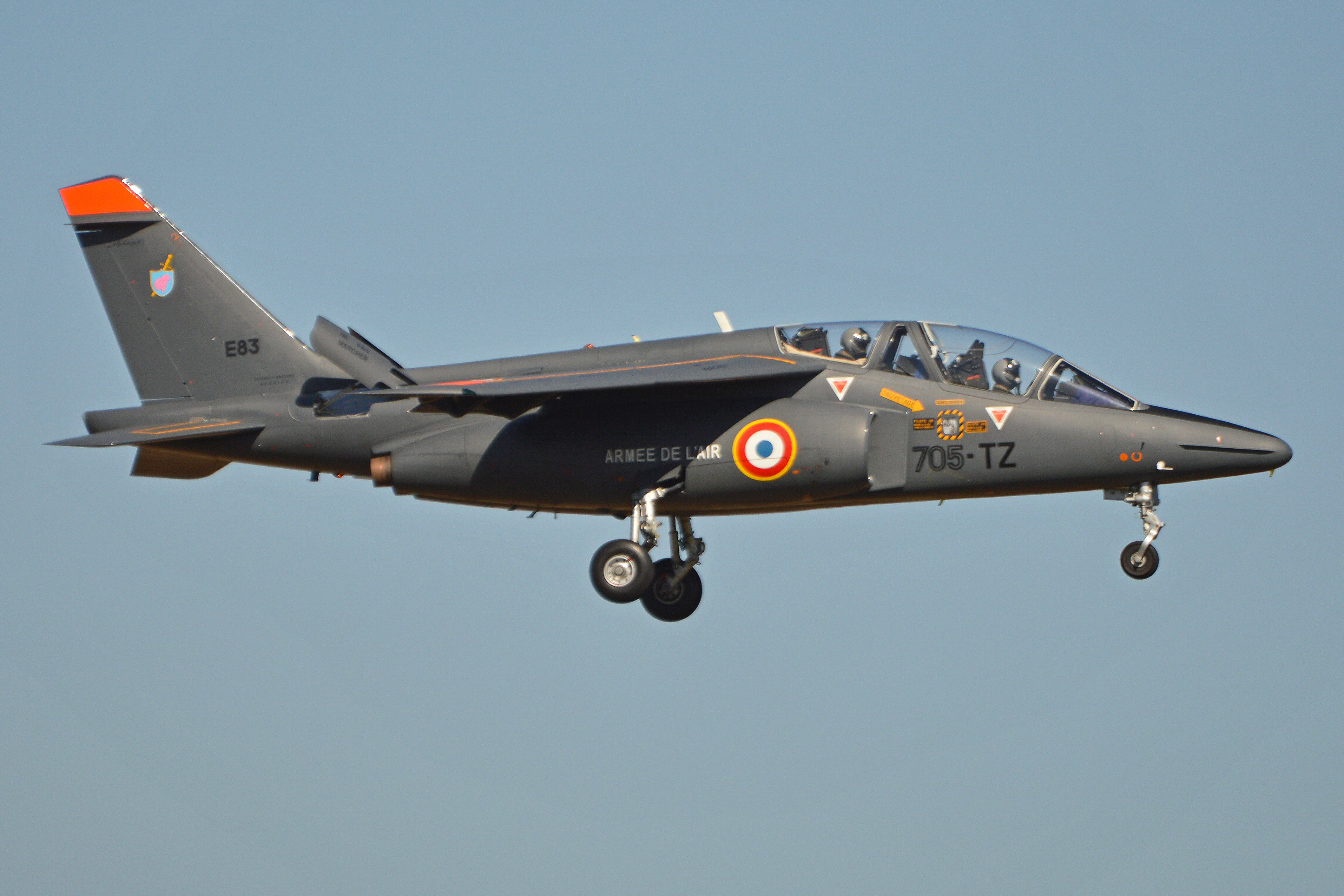 c/n E83. Operated by EAC00.314, French Air Force. Seen arriving for a lunch stop at RAF Coningsby, Lincolnshire, UK. 20-4-2016